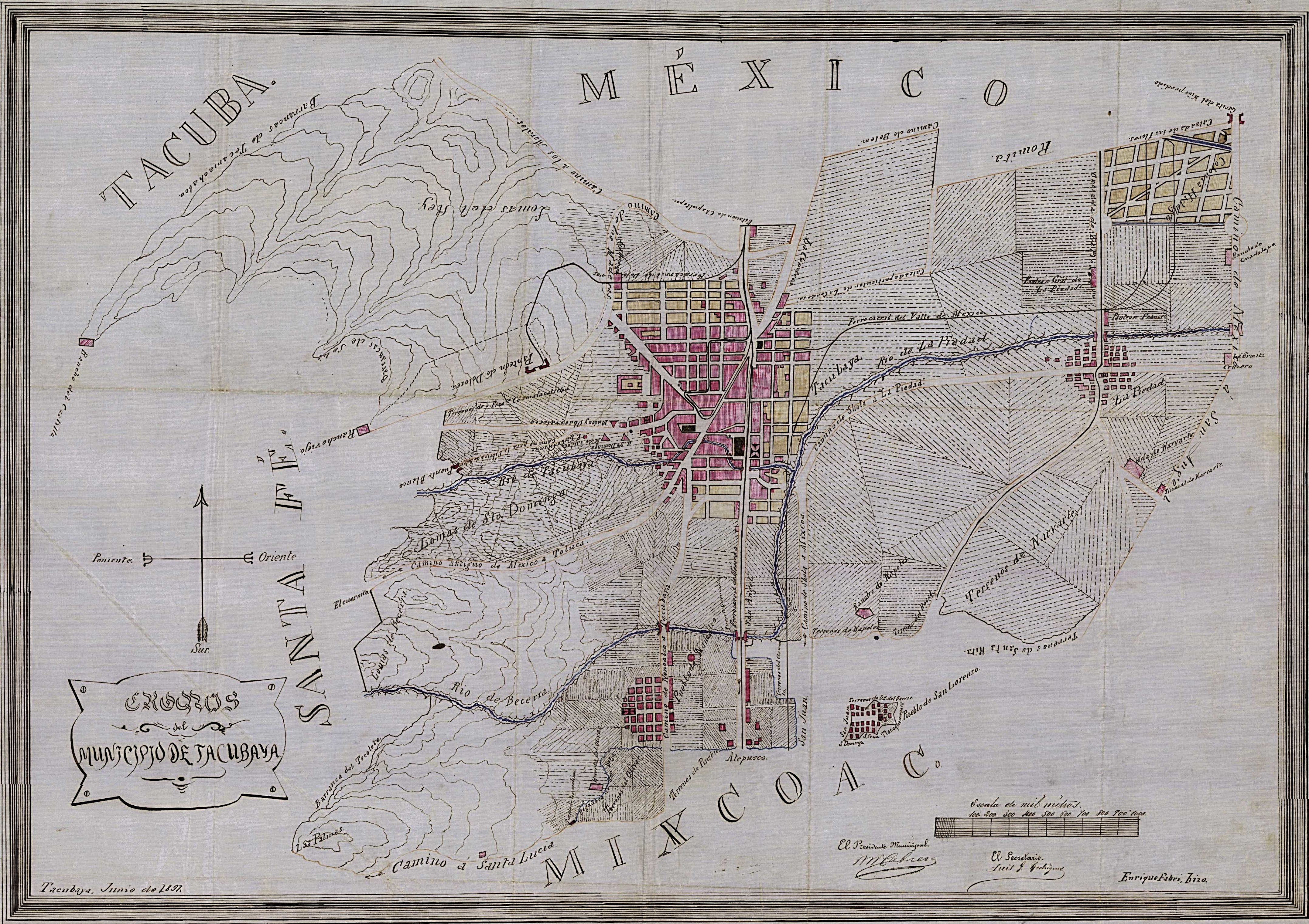 1897 map of Municipality of Tacubaya, Mexican Federal District